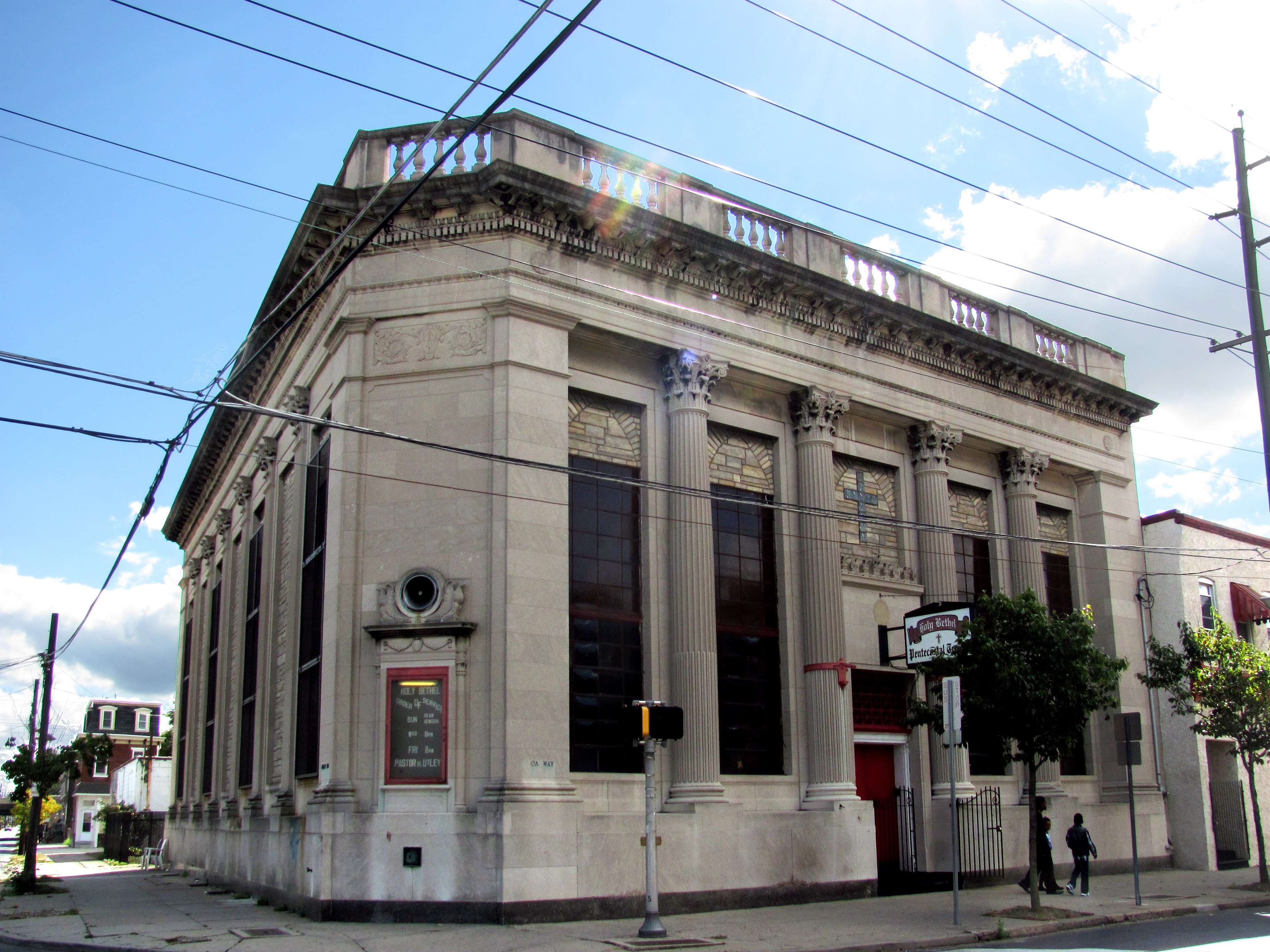 View of South Camden Trust Company, Broadway at Ferry St. Camden, [New Jersey , looking east across Broadway.